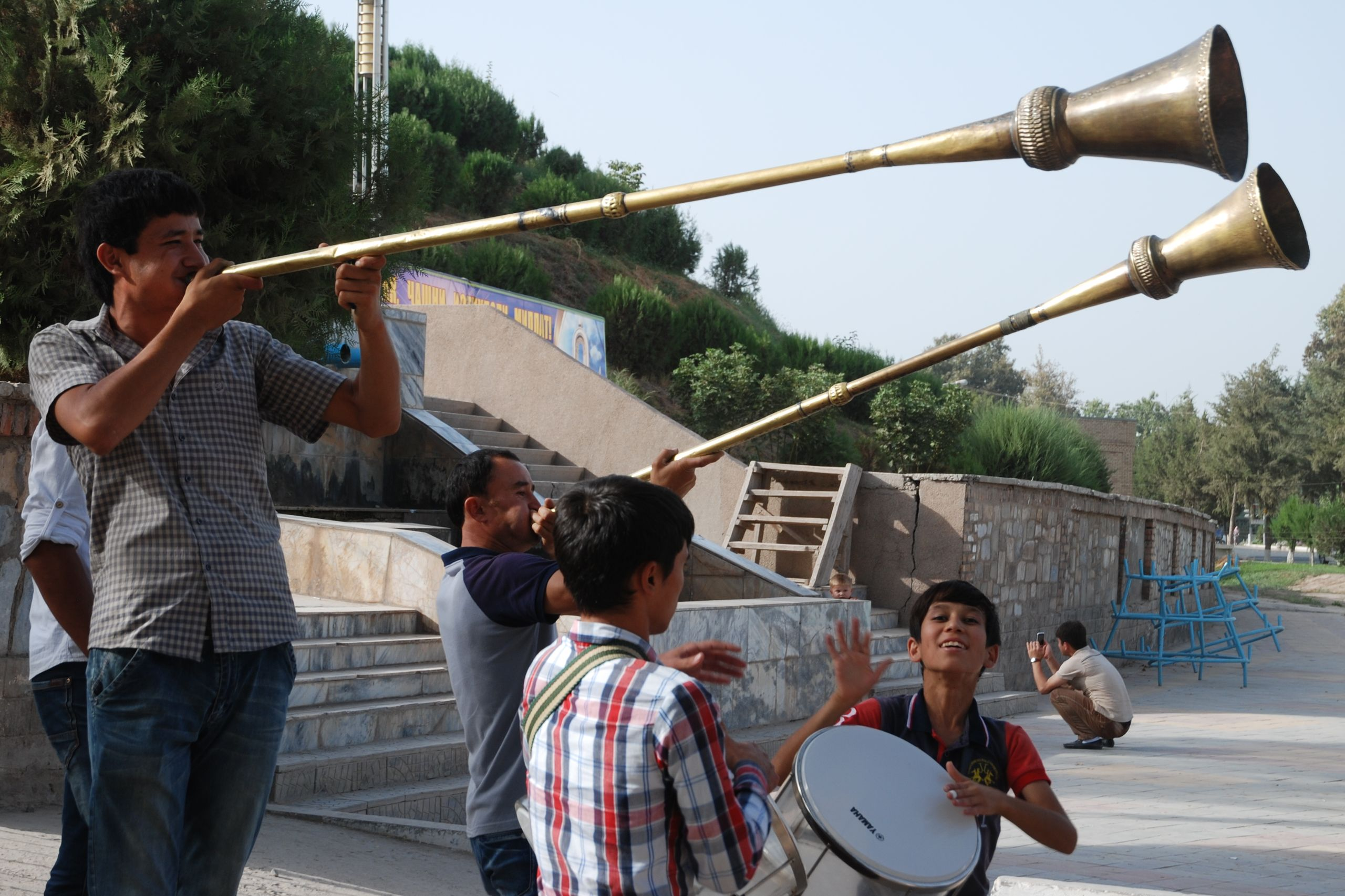 Karnay, marriage in Qurghonteppa, Tajikistan